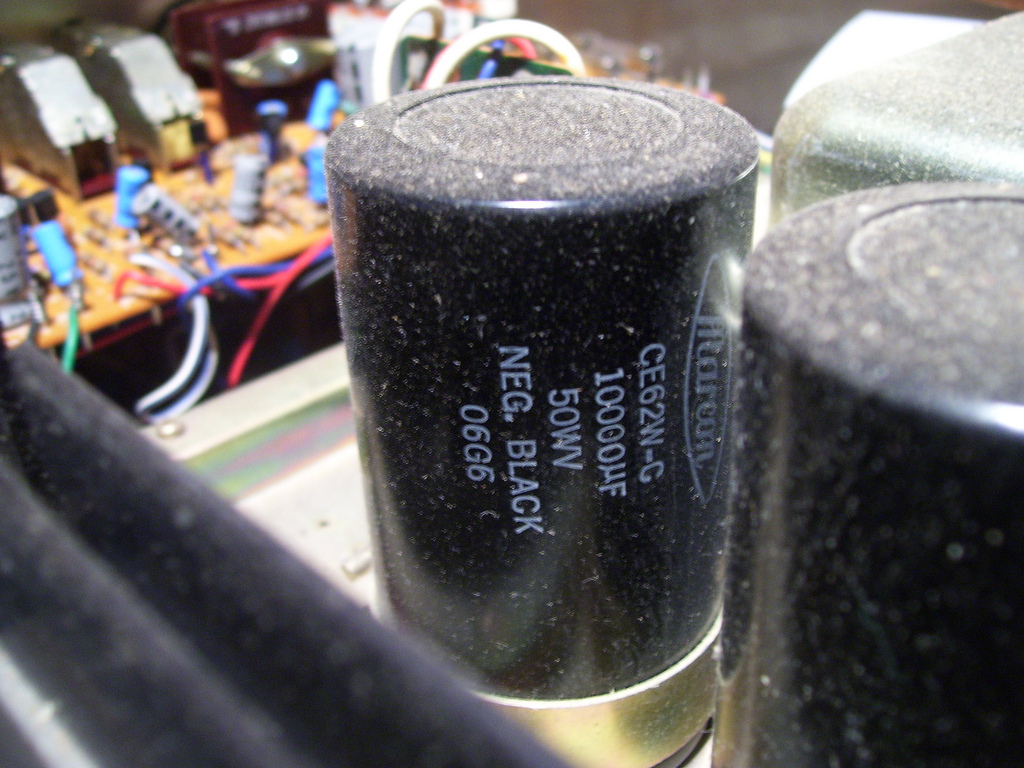 Nikko TRM-800 capacitor